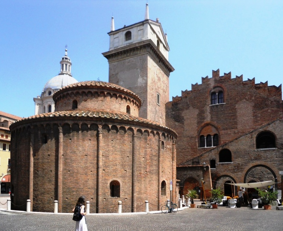 Rotonda di San Lorenzo (Mantua), 11th century